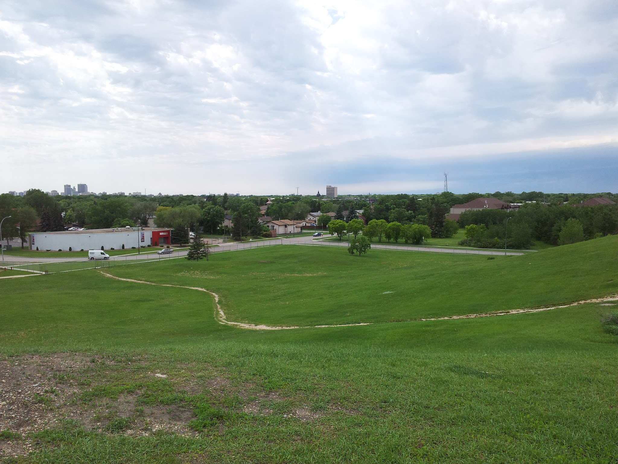 Skyline of Winnipeg from hills in Civic Park in Valley Gardens